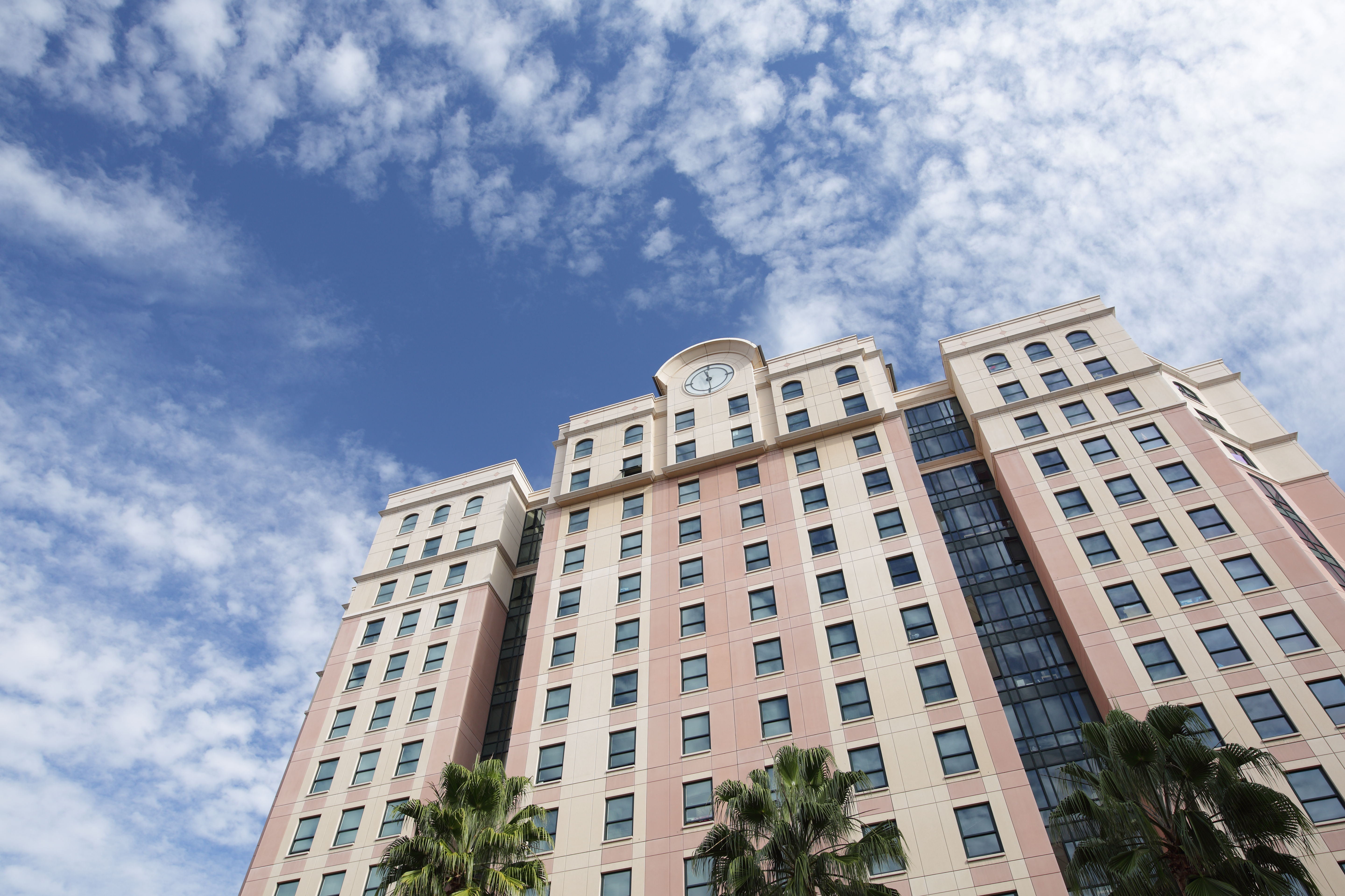 I think this is part of the student housing. It almost looks like a hotel of some sort. Much of the rest of the campus looks like it was from the 1970s, but most of the housing related buildings look reasonably modern. San Jose State University San Jose, CA